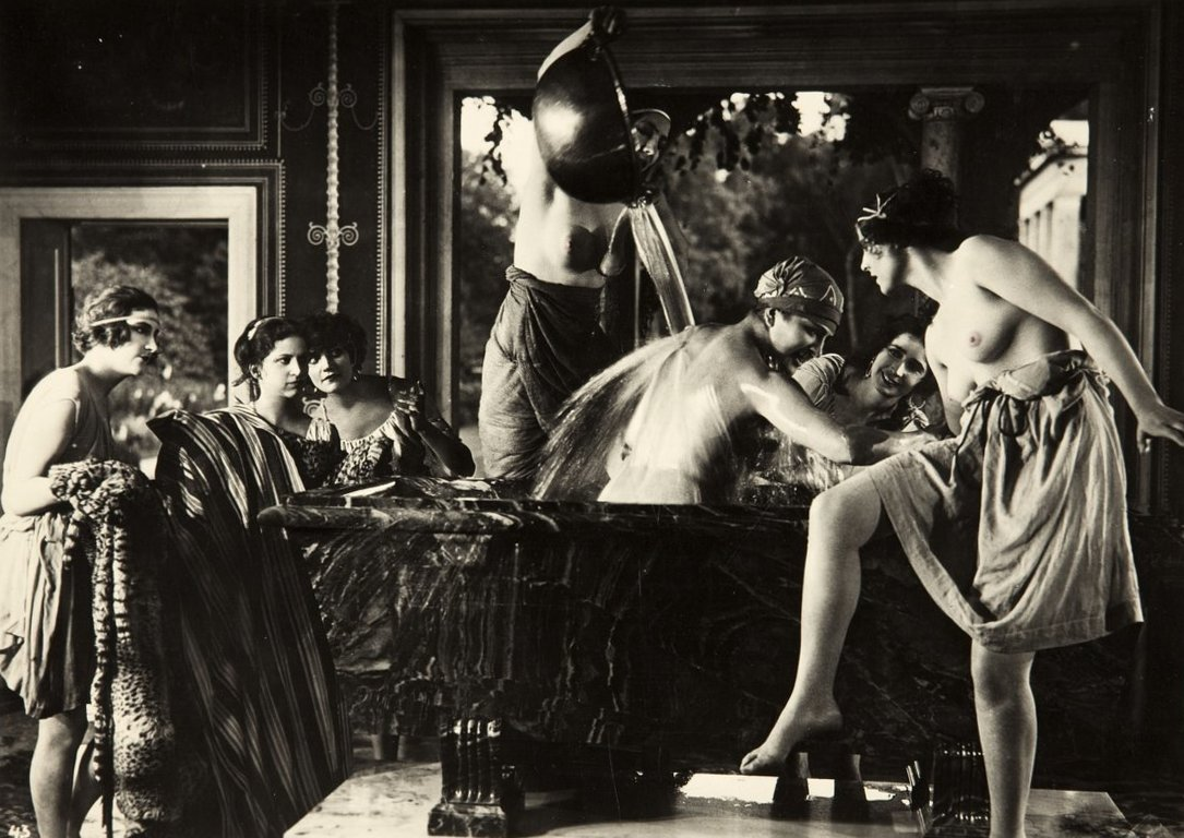 Leni Riefenstahl (right) taking a 'Roman bath' — scene from the film Ways to Strength and Beauty (Wege zu Kraft und Schönheit) (1925).